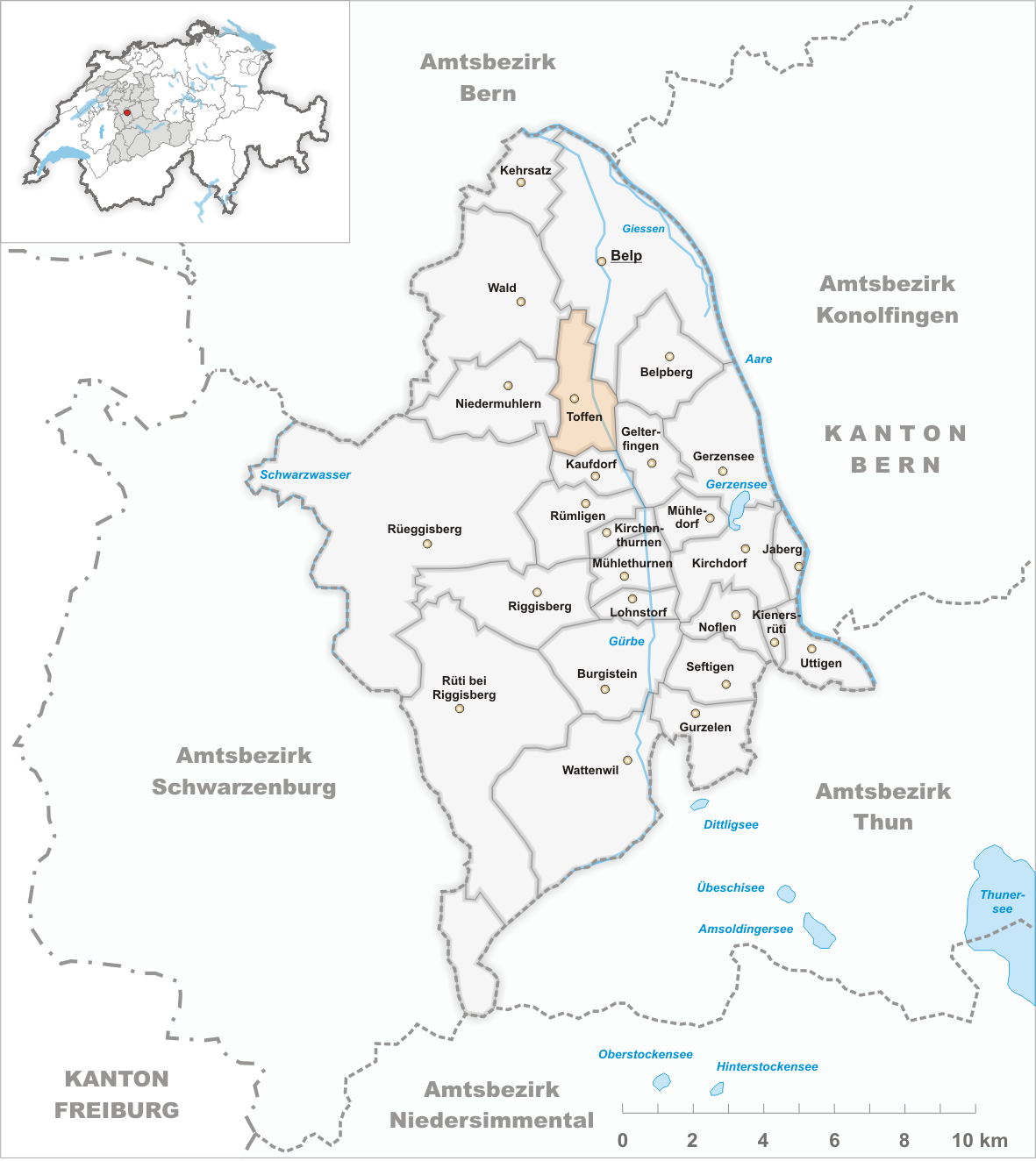 Municipality Toffen